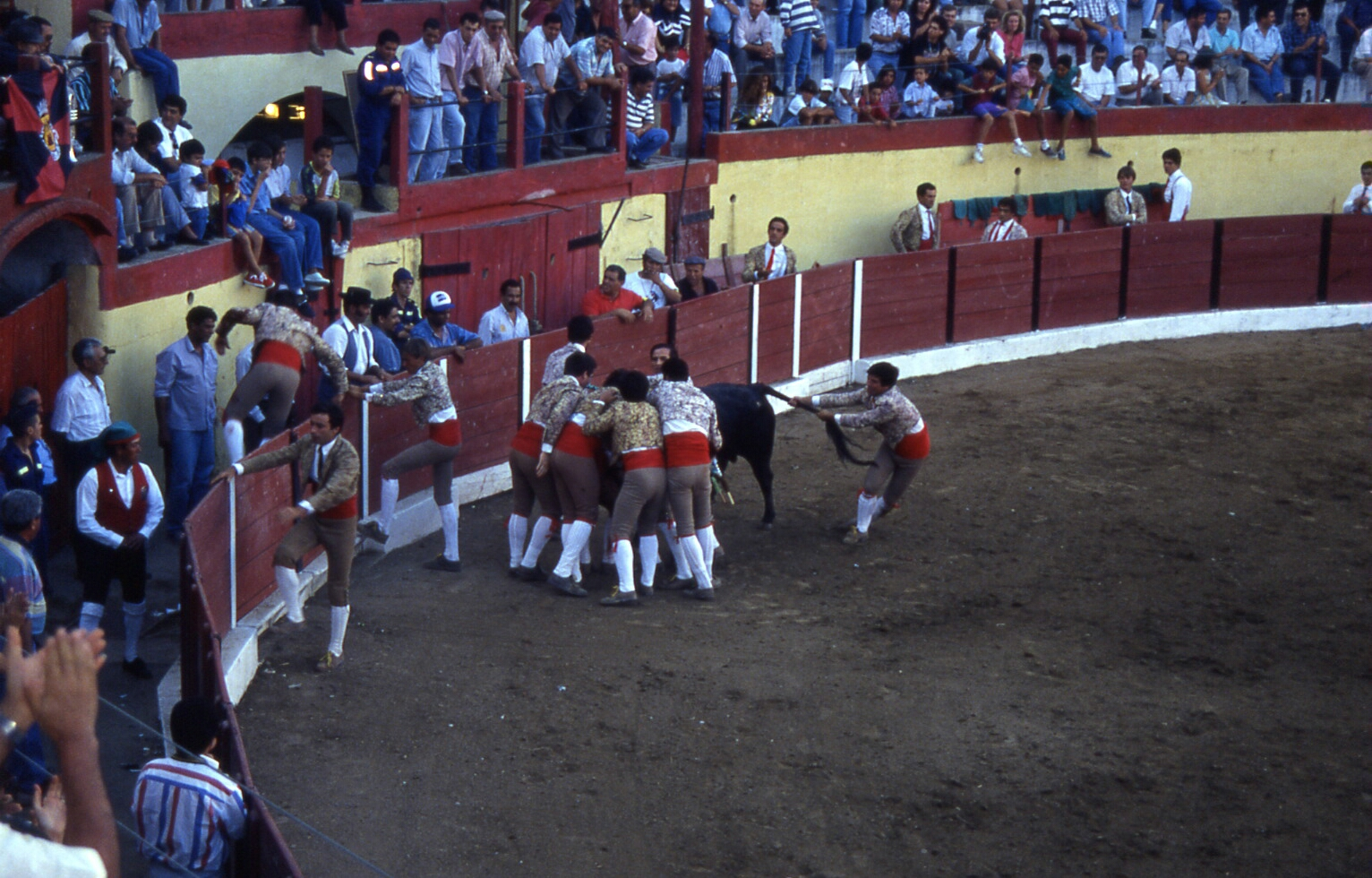 The Bullring in city of Beja, Alentejo, Portugal.